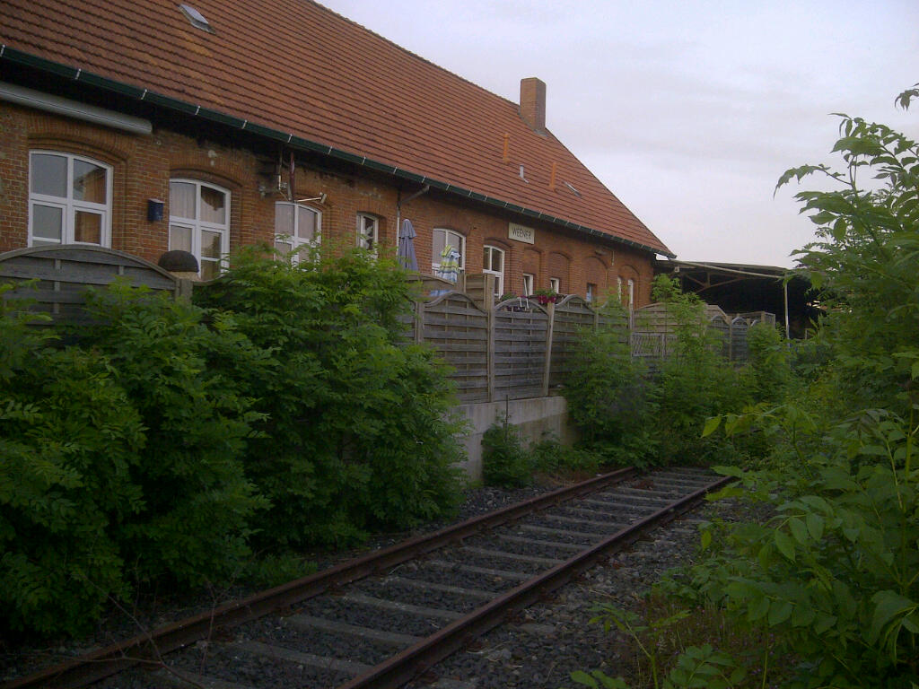 Ancien trainstation building Weener, photo taken from the new platform